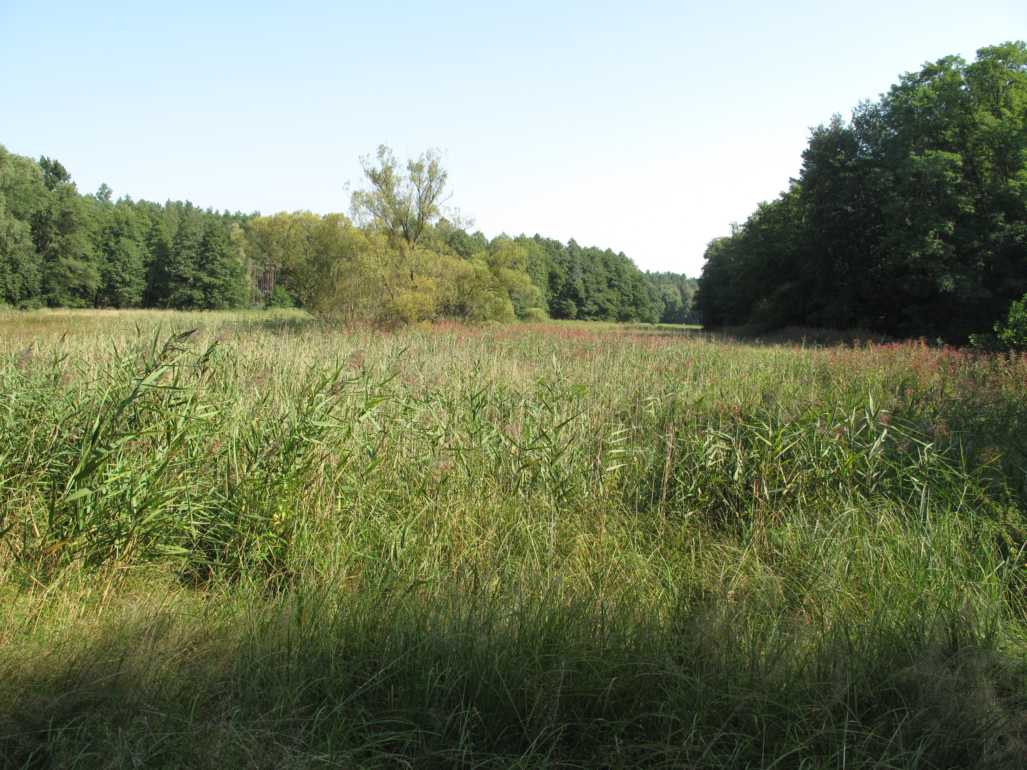 Lowland of the Blabbergraben at the former Blabbermühle (water mill) in the village Görsdorf. The Blabbergraben is a stream in the District Oder-Spree, Brandenburg, Germany. Coming from the „ Herzberger See“ the stream connects five small, long lakes in the municipalities Rietz-Neuendorf and Tauche and drains them into the river Spree. Including the lakes the flow length is 13,7 kilometers.